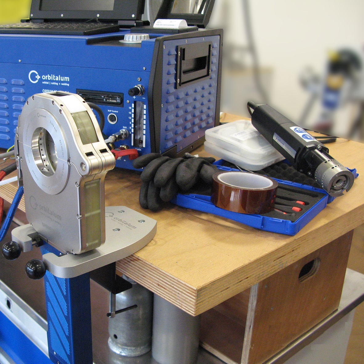 Example Orbital Welder package